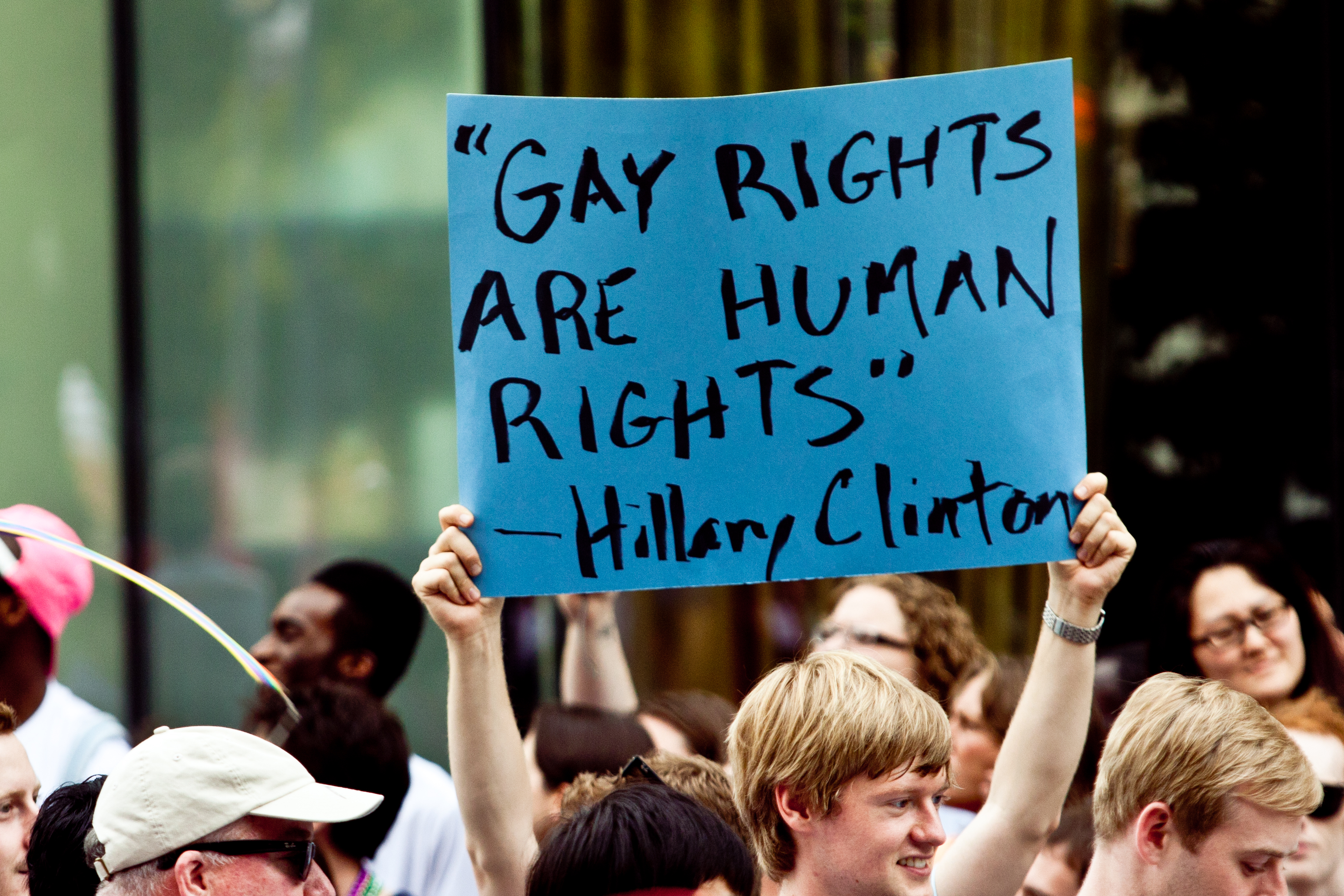 More photos from the parade here ! 2011 Capital Pride Parade - Dupont Circle - Washington, DC This photo featured in the Good Men Project website. This photo featured in the LA Weekly Blog . This photo featured in the PolicyMic website. This photo featured in the Immigrant Justice blog. This photo featured in the ManagementInk blog. This photo featured in the Michigan Radio 91.7 website, an NPR affiliate. This photo featured in the Gold Water Gal blog.